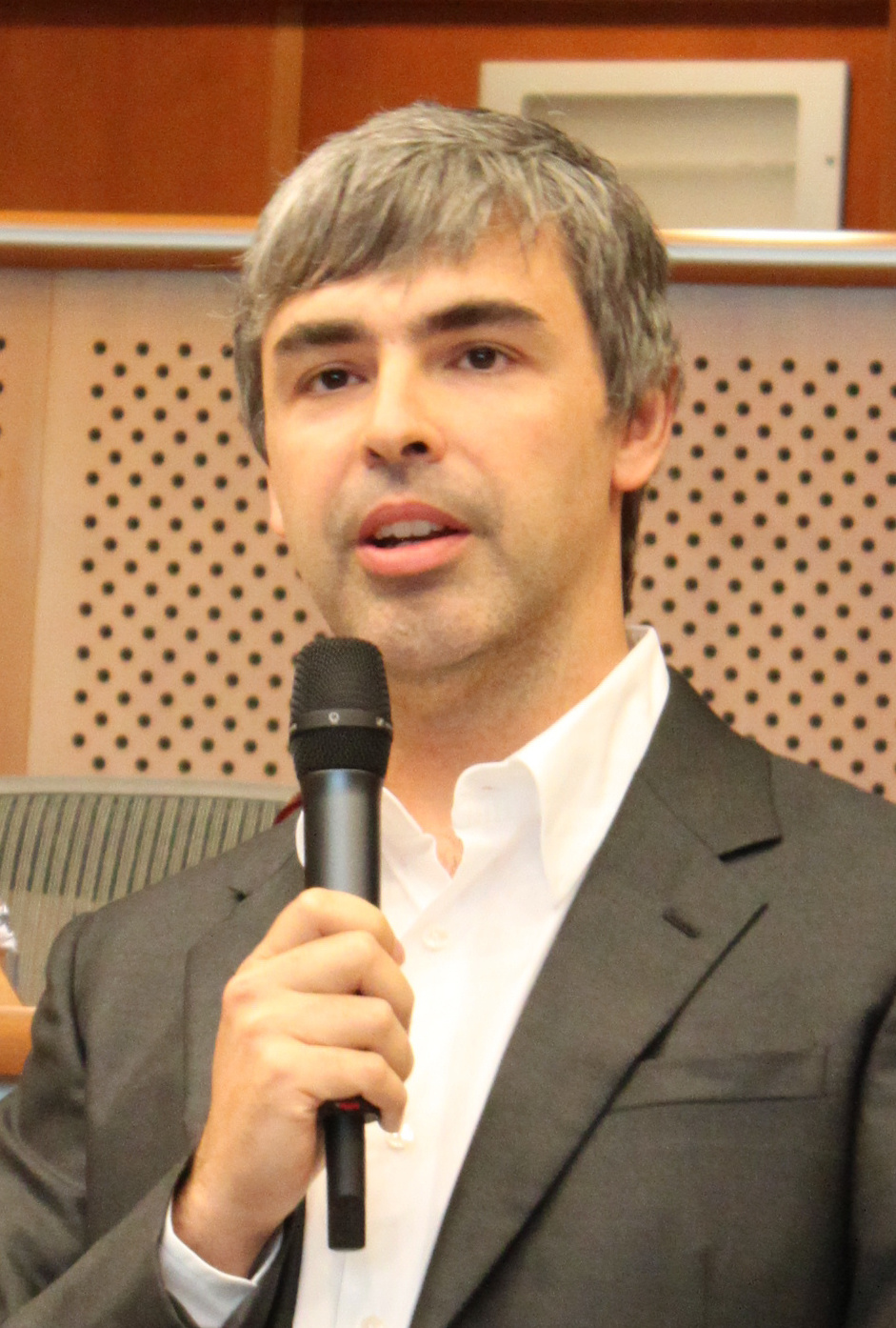 Larry Page, co-founder of Google, in the European Parliament on 17.06.2009